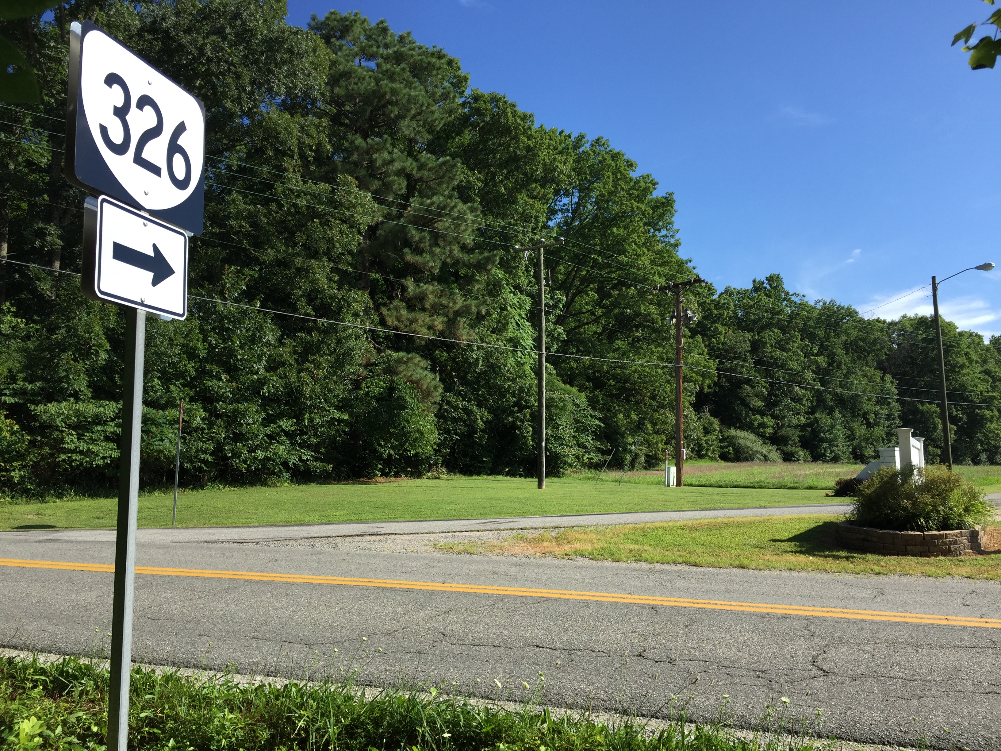 View east along Virginia State Route 326 (Broad Neck Road) at River Road (Virginia State Secondary Route 605) in Hanover County, Virginia